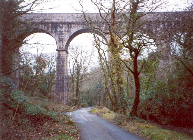 Viaduct, Luxulyan This viaduct was built of granite by Joseph Treffry in 1839 for a quarry railway (now disused) and aqueduct (still in use?). A car park and woodland walks are nearby.